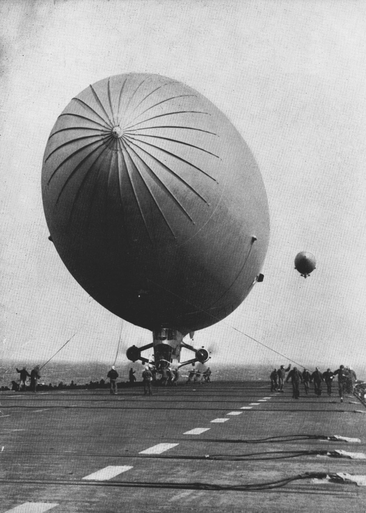 A U.S. Navy K-class blimp landing aboard the escort carrier USS Mindoro (CVE-120) during training operations off the U.S. East Coast.